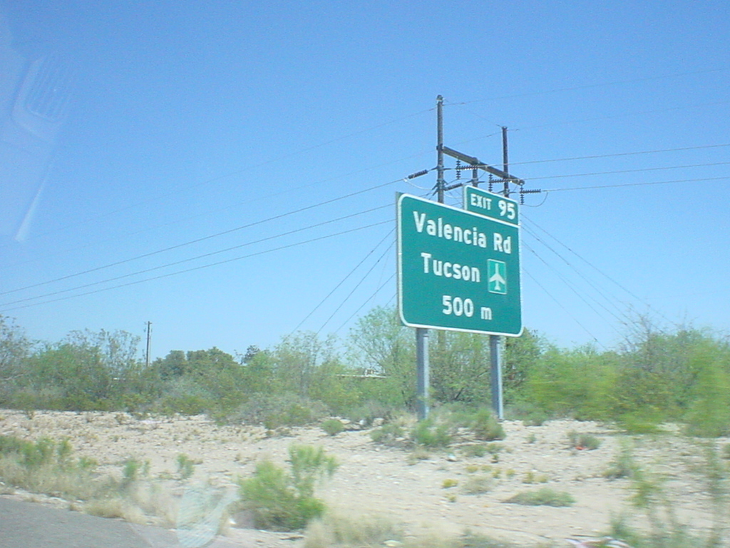 A road sign on Interstate 19 just south of Tucson, AZ, USA; note the Metric Units used. Photo taken on 18 April 2005.